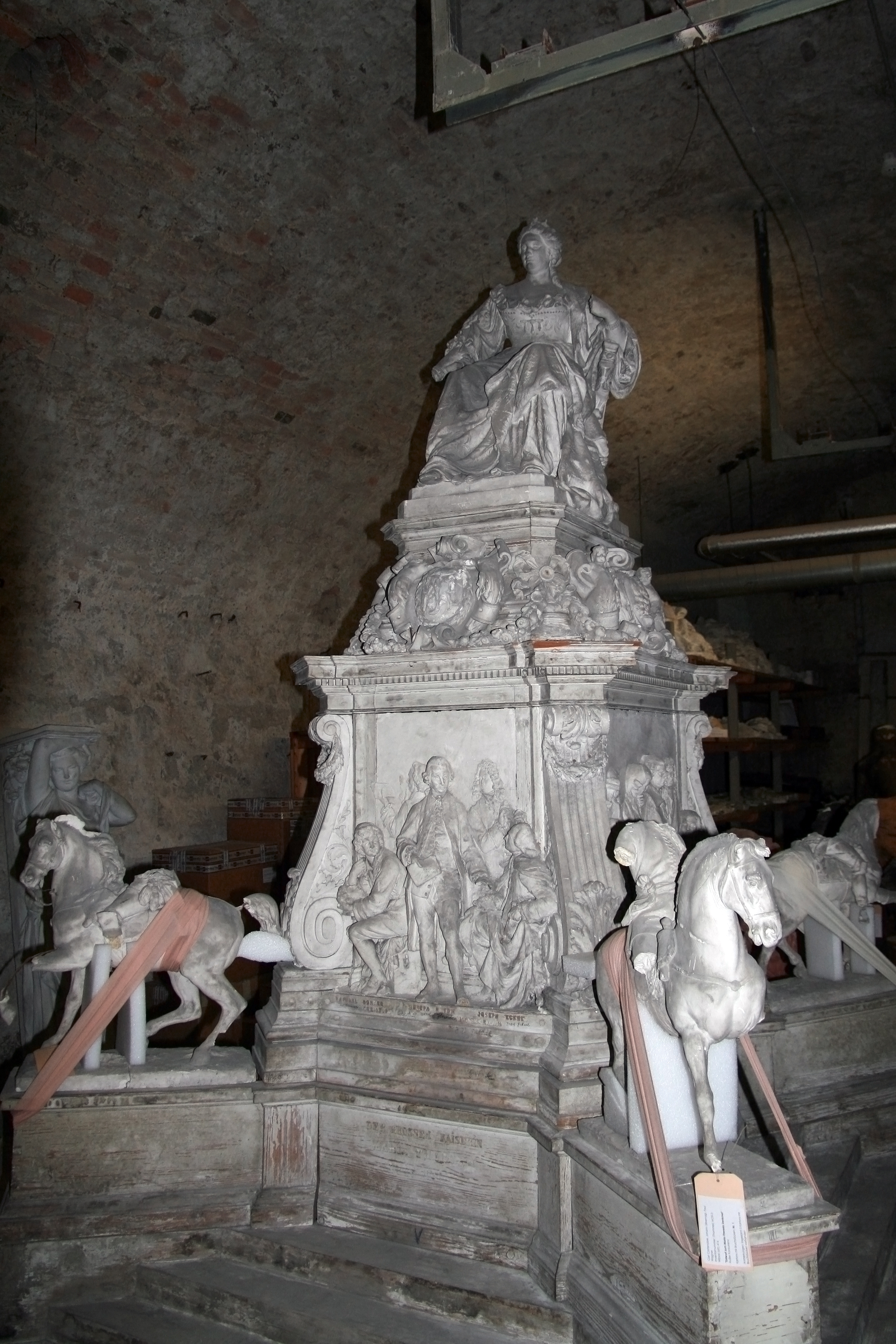 Models made of gypsum of statues, reliefs etc. from the time of Historicism and Art Nouveau (late 19th and early 20th century) for buildings at Ringstraße in Vienna, Austria, stored in the former wine cellar of Hofburg Palace (Leopold Wing). Dieses Bild wurde anlässlich des österreichischen Tags des Denkmals 2012 in Wien eingereicht.